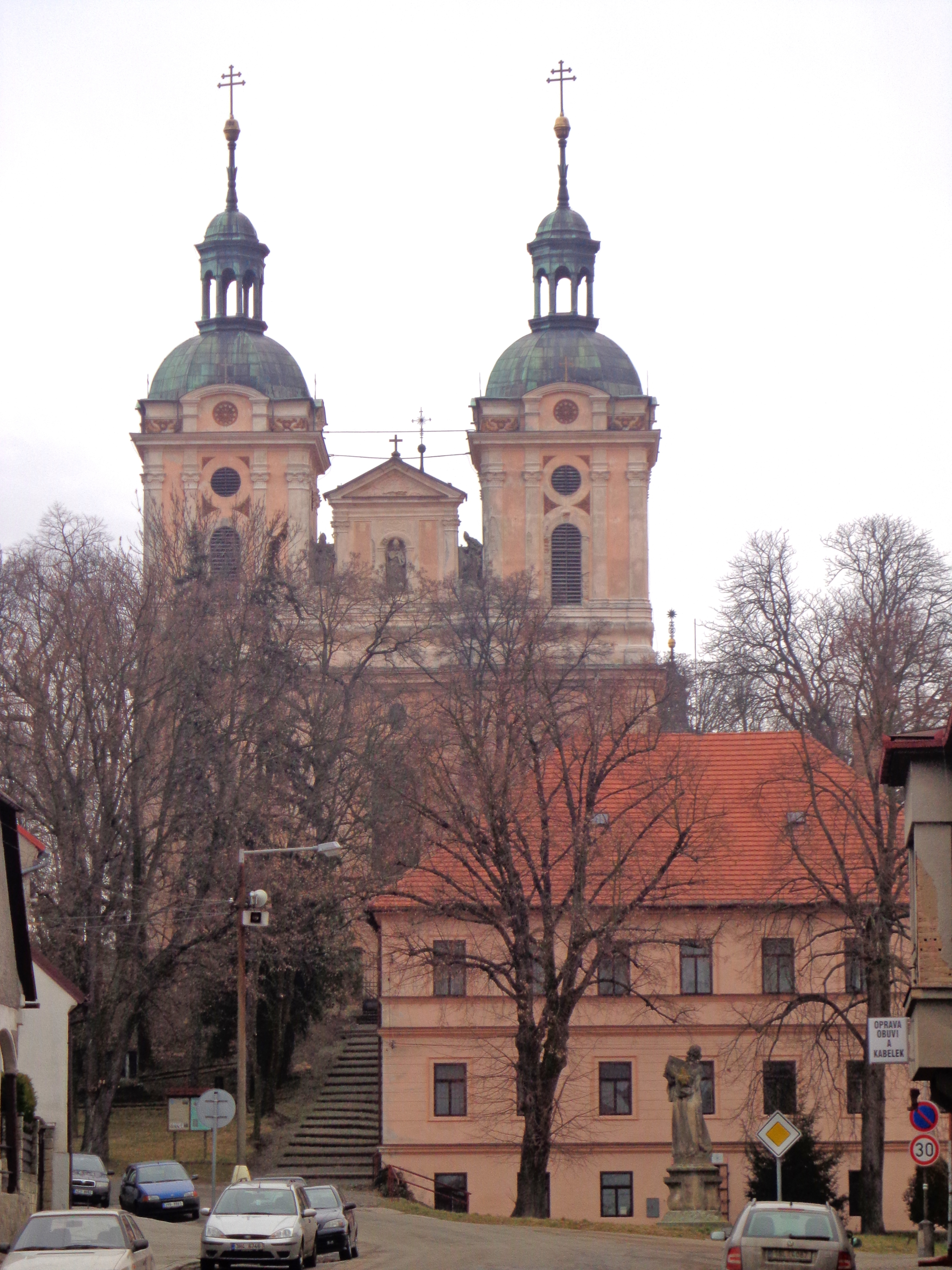 Church of Saint Gall in Rožďalovice.